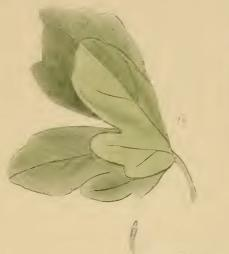 Stainton’s Natural History of the Tineina (1855–1873): Altenia scriptella a folded maple leaf